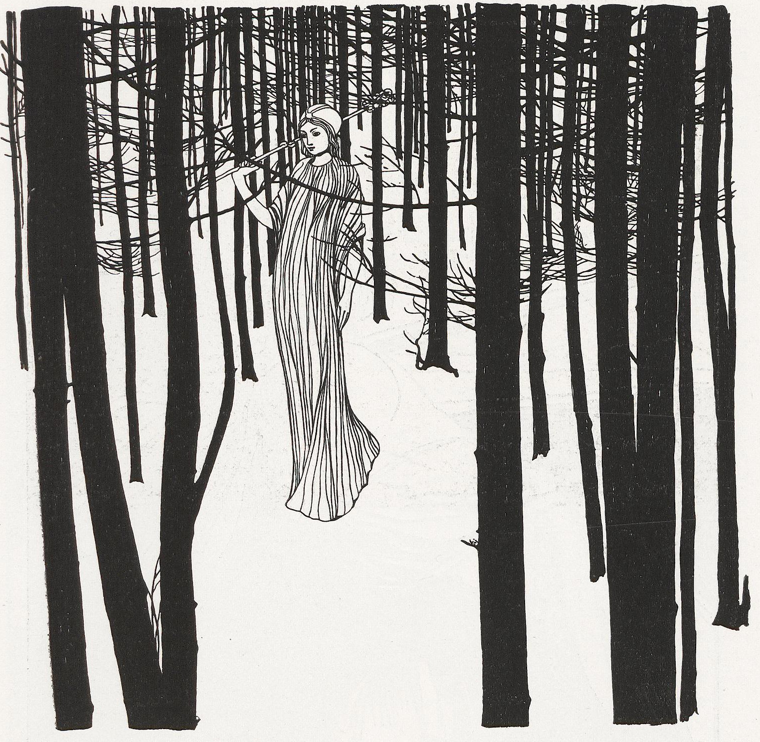 "Märchen" (Fairy tale).